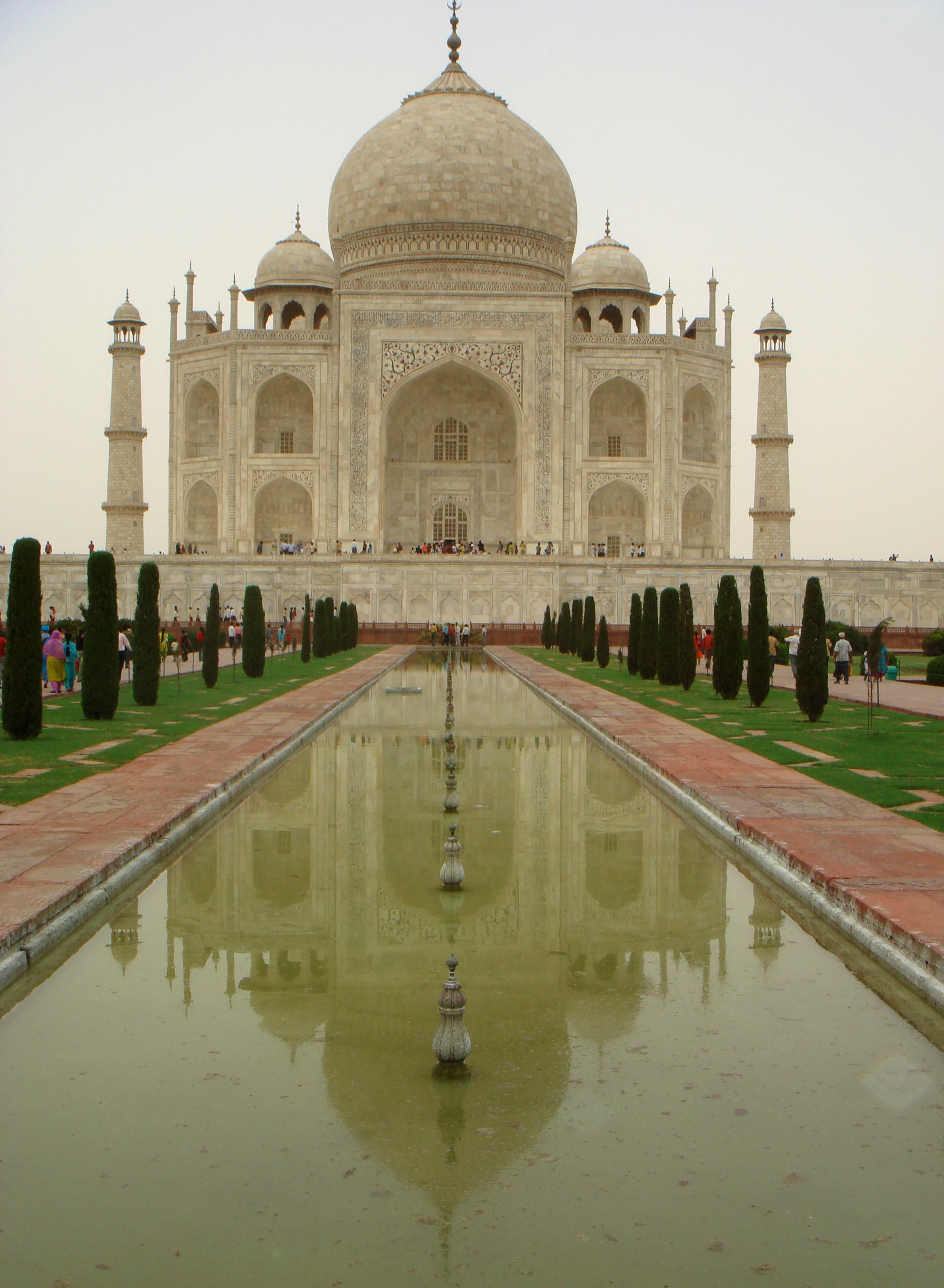 Picture taken by Kaiser Tufail during visit to Agra, 3-5-08